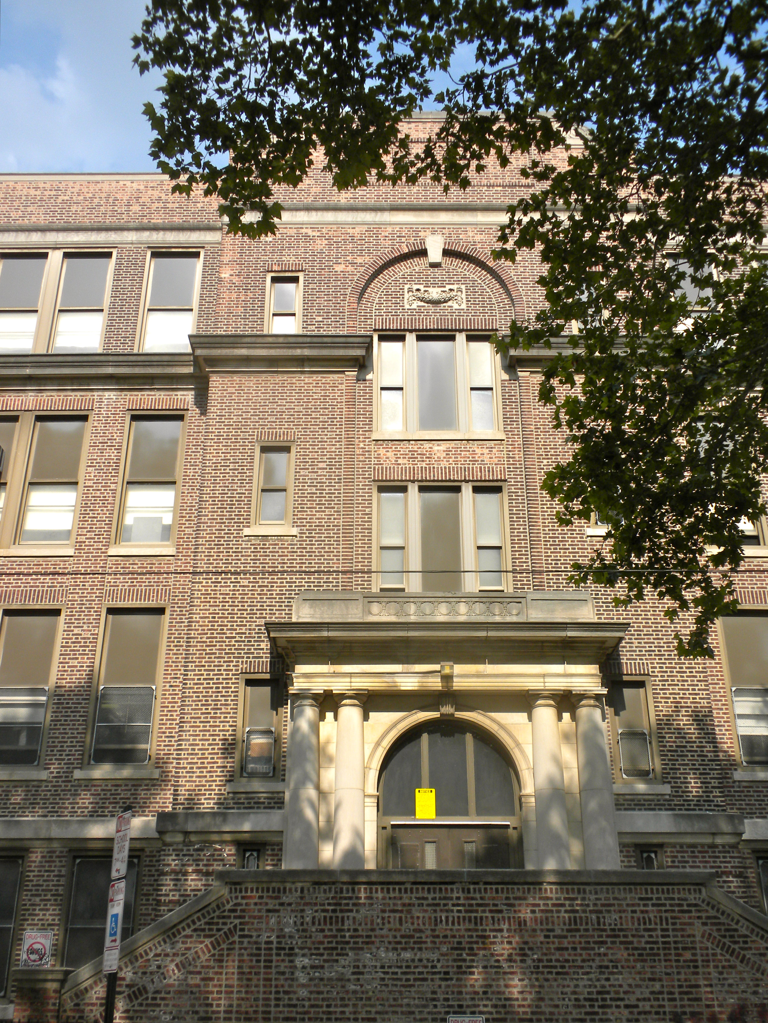 Lewis C. Cassidy School on the NRHP since November 18, 1988. At 6523 Lansdowne Avenue in Morris Park neighborhood of West Philadelphia